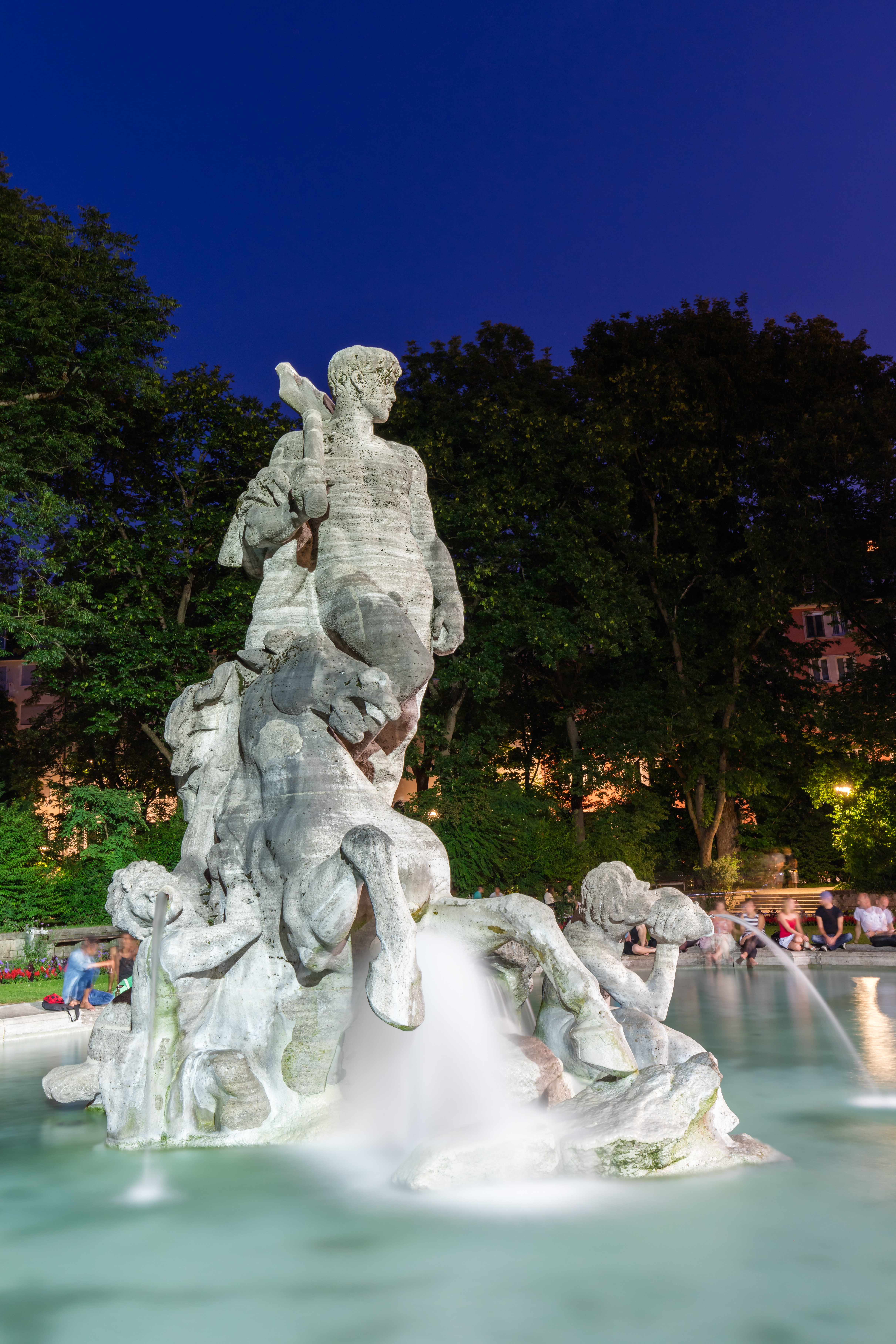 Fountain of Neptune, Old Botanical Garden, Munich, Germany